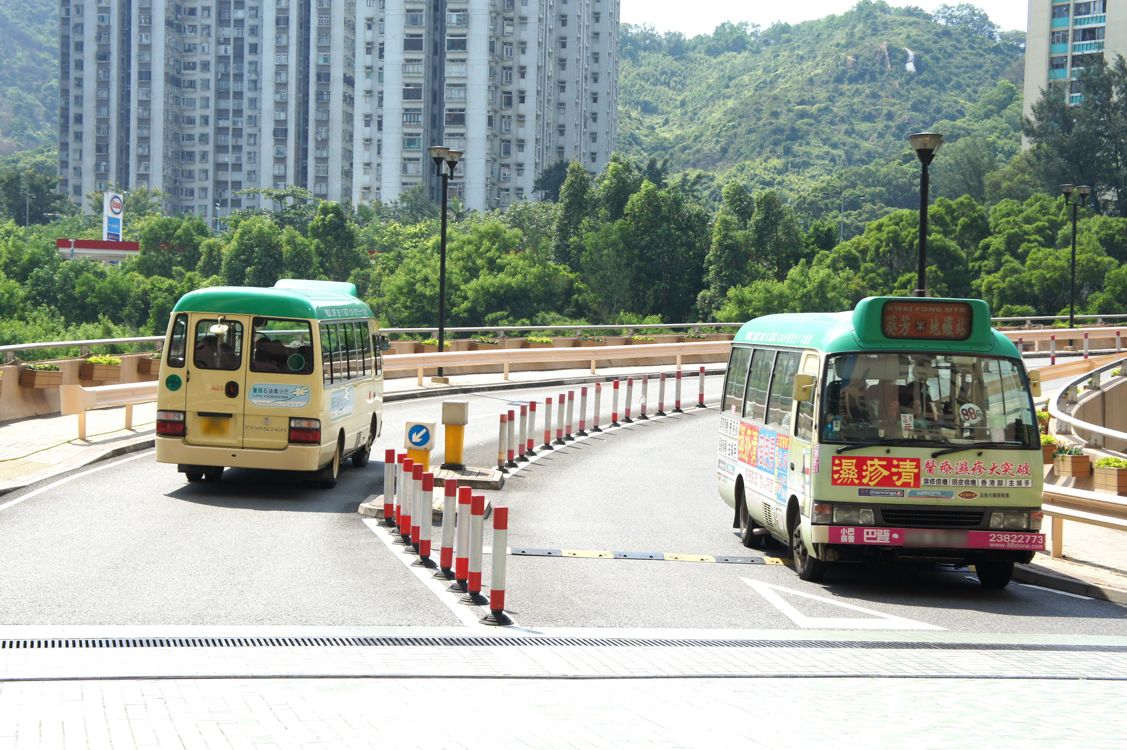 A Route 88G minibus (right) entering Rambler Crest, Tsing Yi, New Territories, Hong Kong.